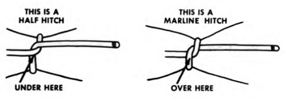 caption: "Difference between a marline hitch and a half hitch.